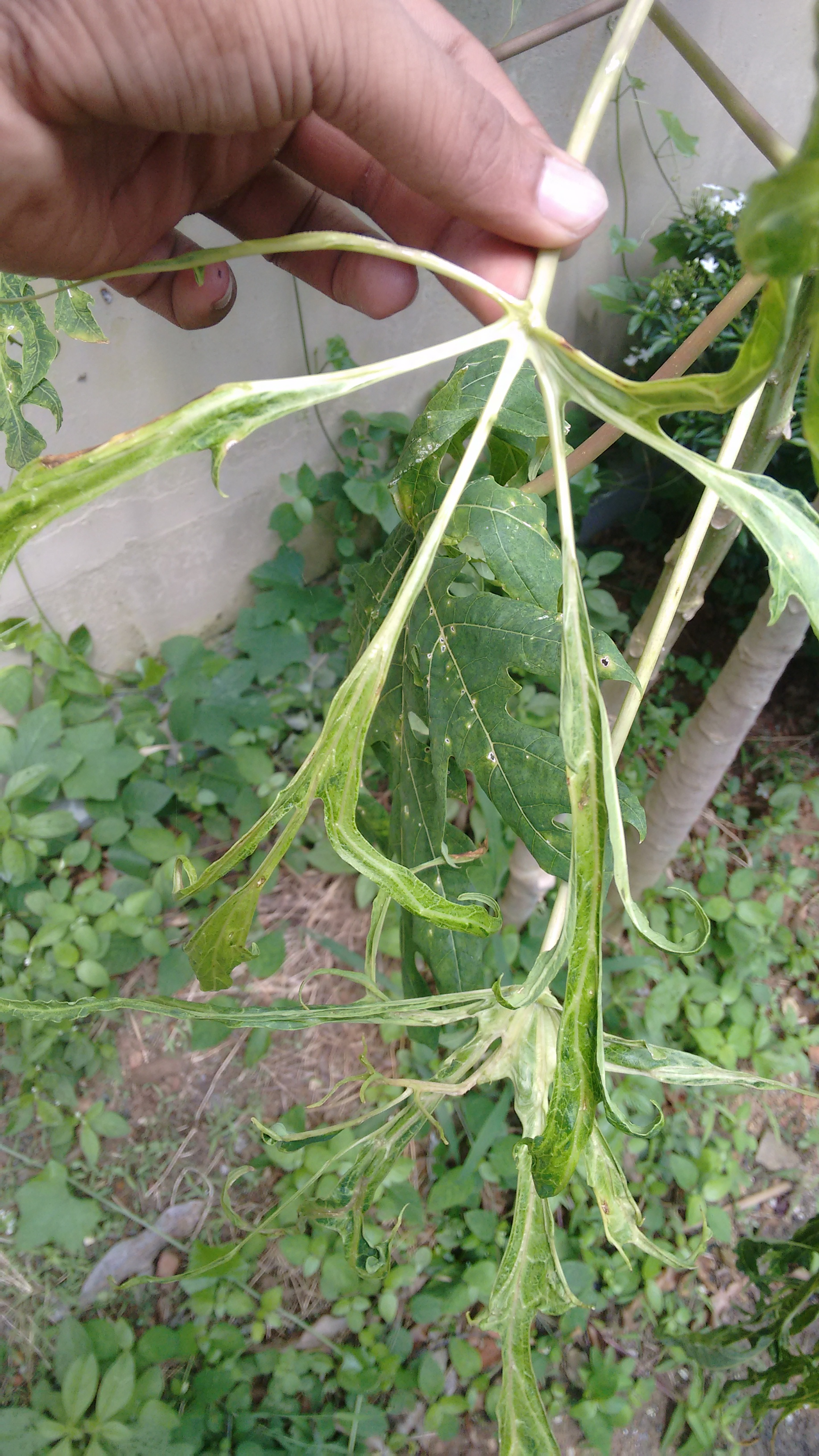 symptom of papaya mosaic infection